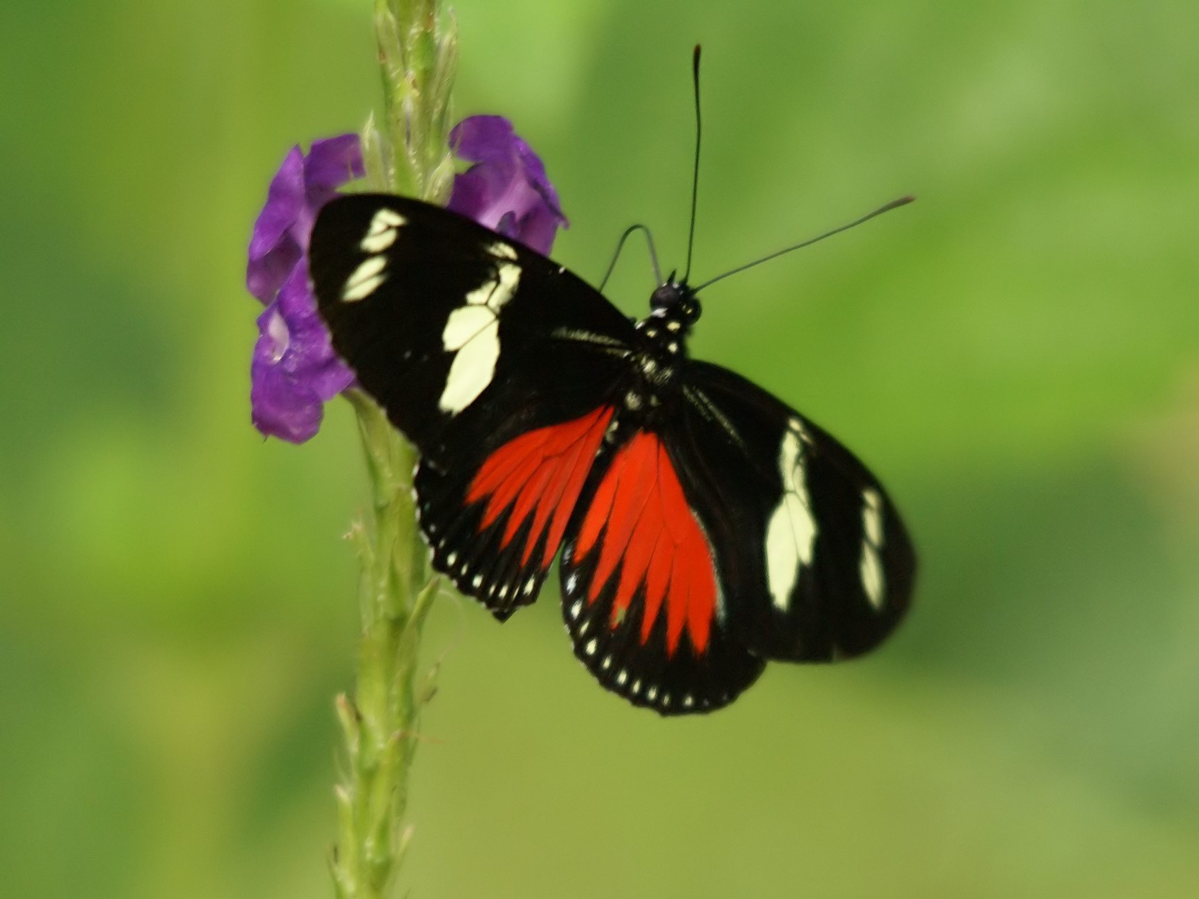 Doris Longwing at Puentes Colgantes near Arenal Volcano, Costa Rica